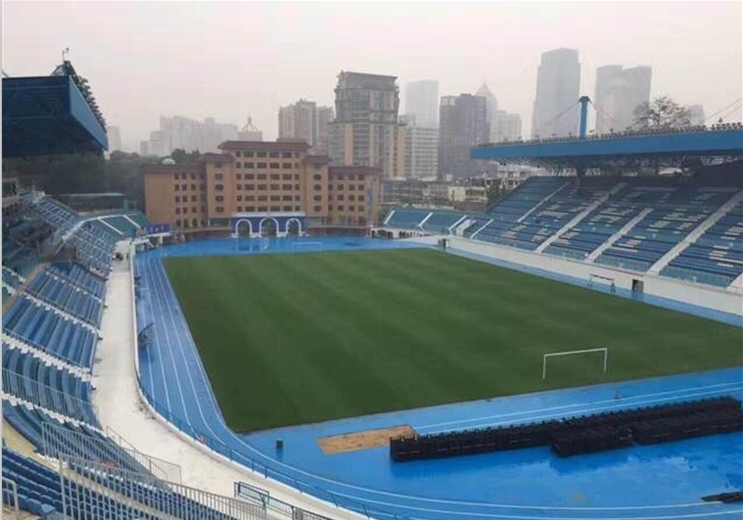 This is Yuexiushan Stadium after renovation. It is photographed in May 2017.